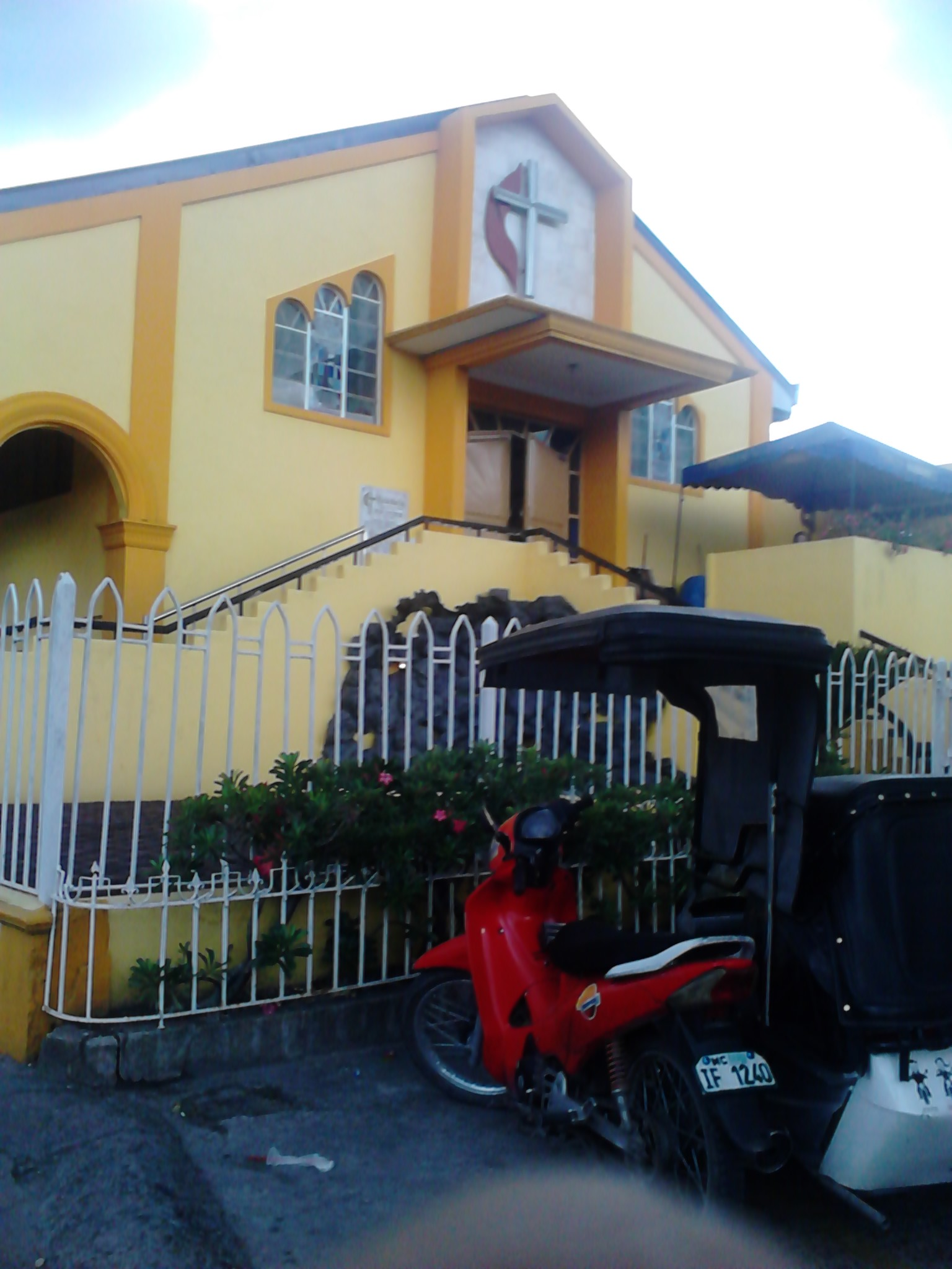 Mt Zion a United Methodist Church in Magalang, Pampanga